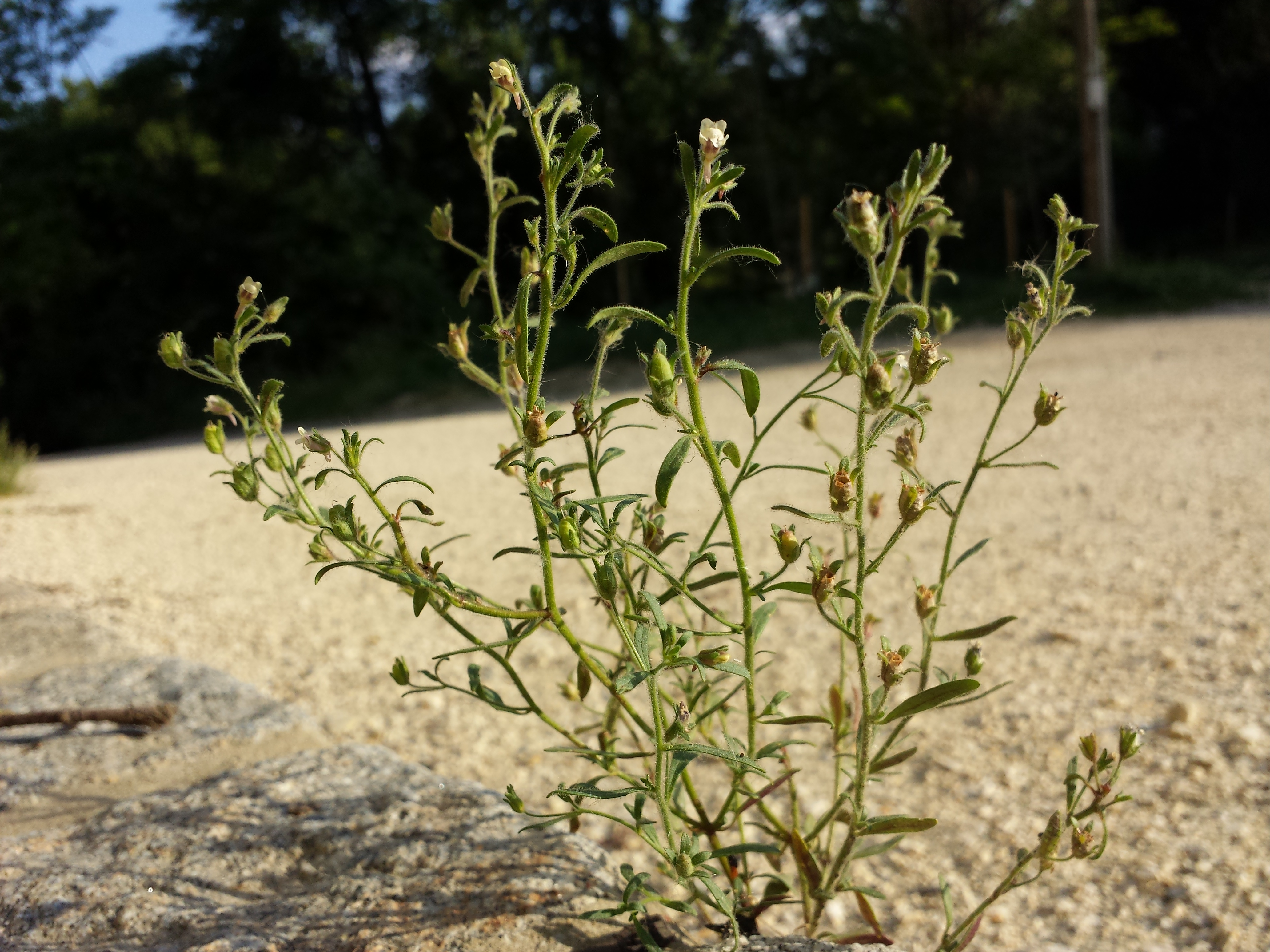 Habitus Taxon: Microrrhinum minus (sensu Fischer et al. EfÖLS 2008 ISBN 978-3-85474-187-9) Location: Klausgraben on Bisamberg, district Korneuburg, Lower Austria - ca. 250 m a.s.l. Habitat: crack within road coating